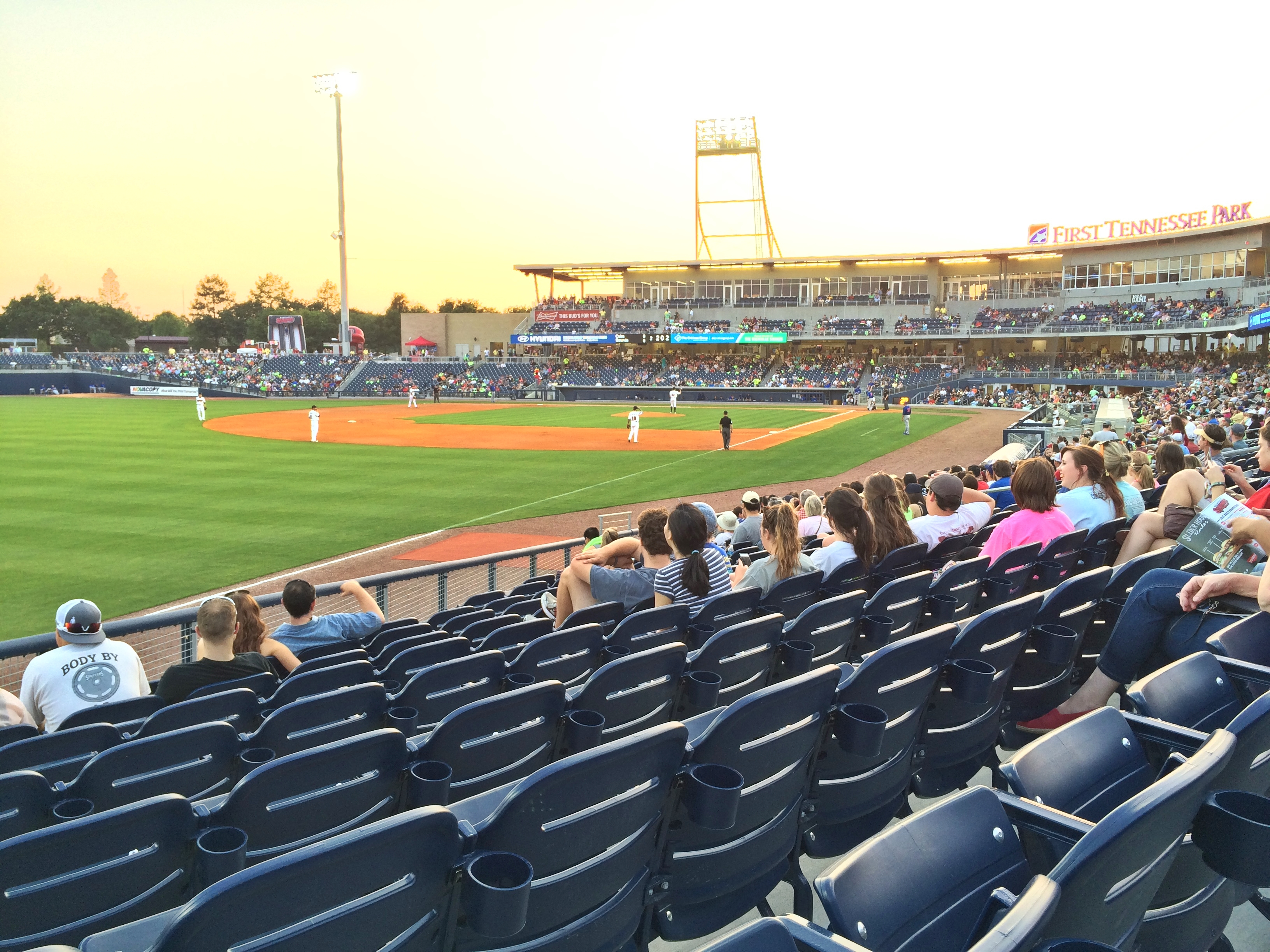 The Nashville Sounds playing against the Iowa Cubs at First Tennessee Park May 5, 2015